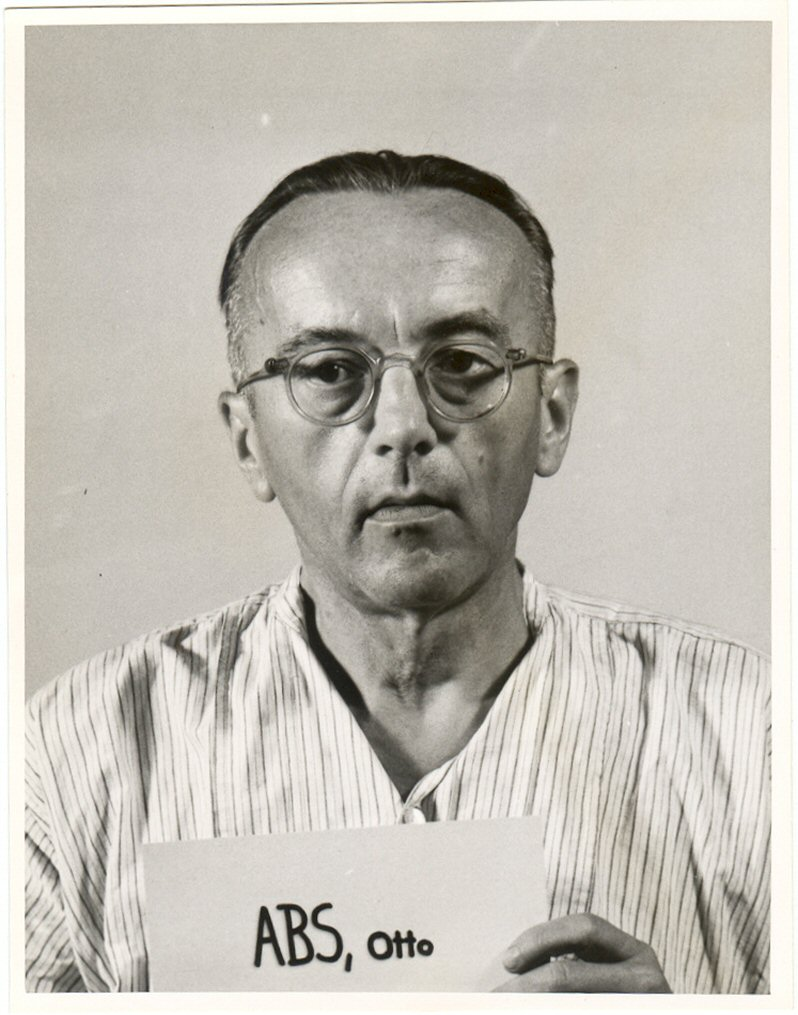 Otto Abs as a witness during the Nuremberg Trials.